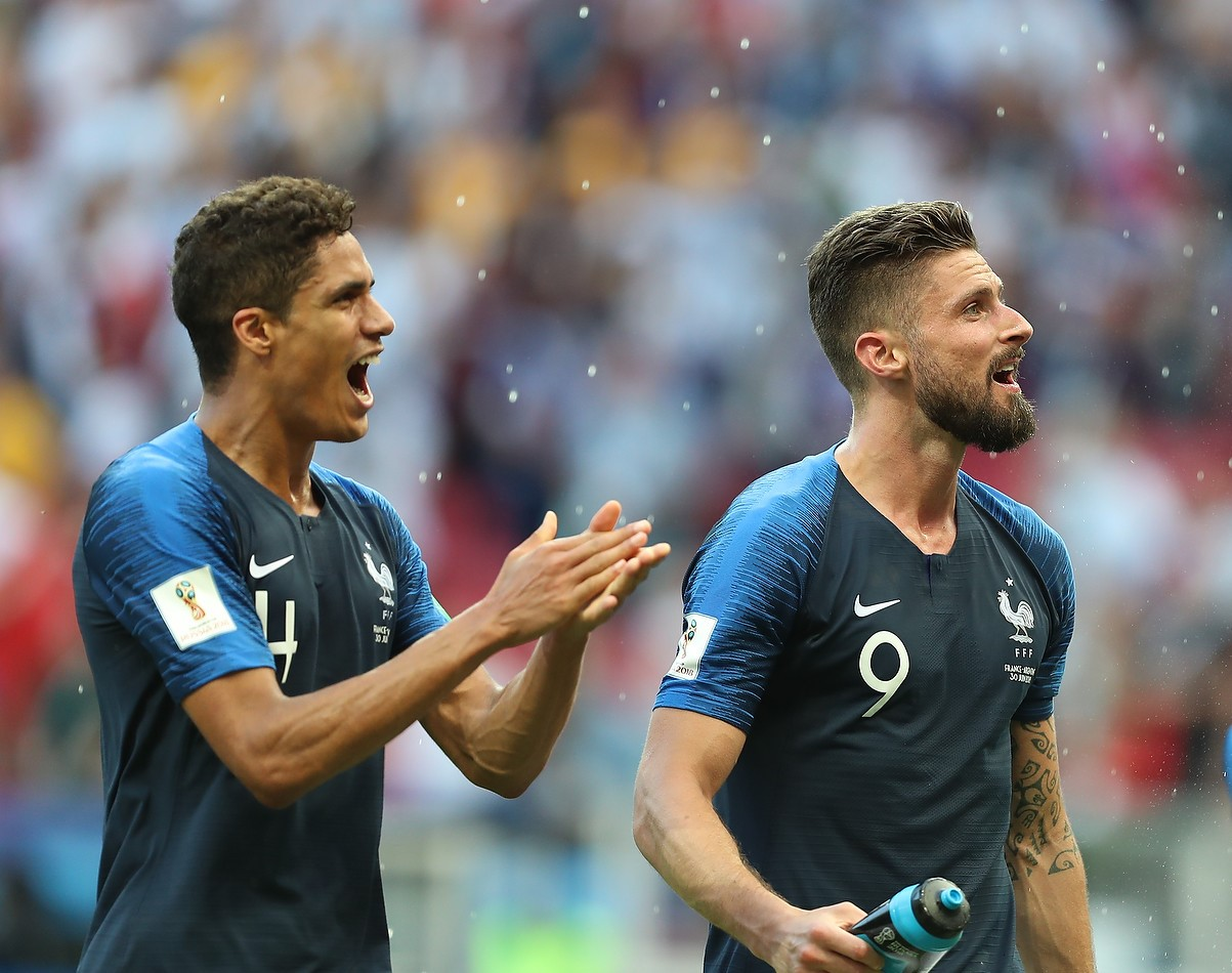 2018 FIFA World Cup Match 50, France v Argentina